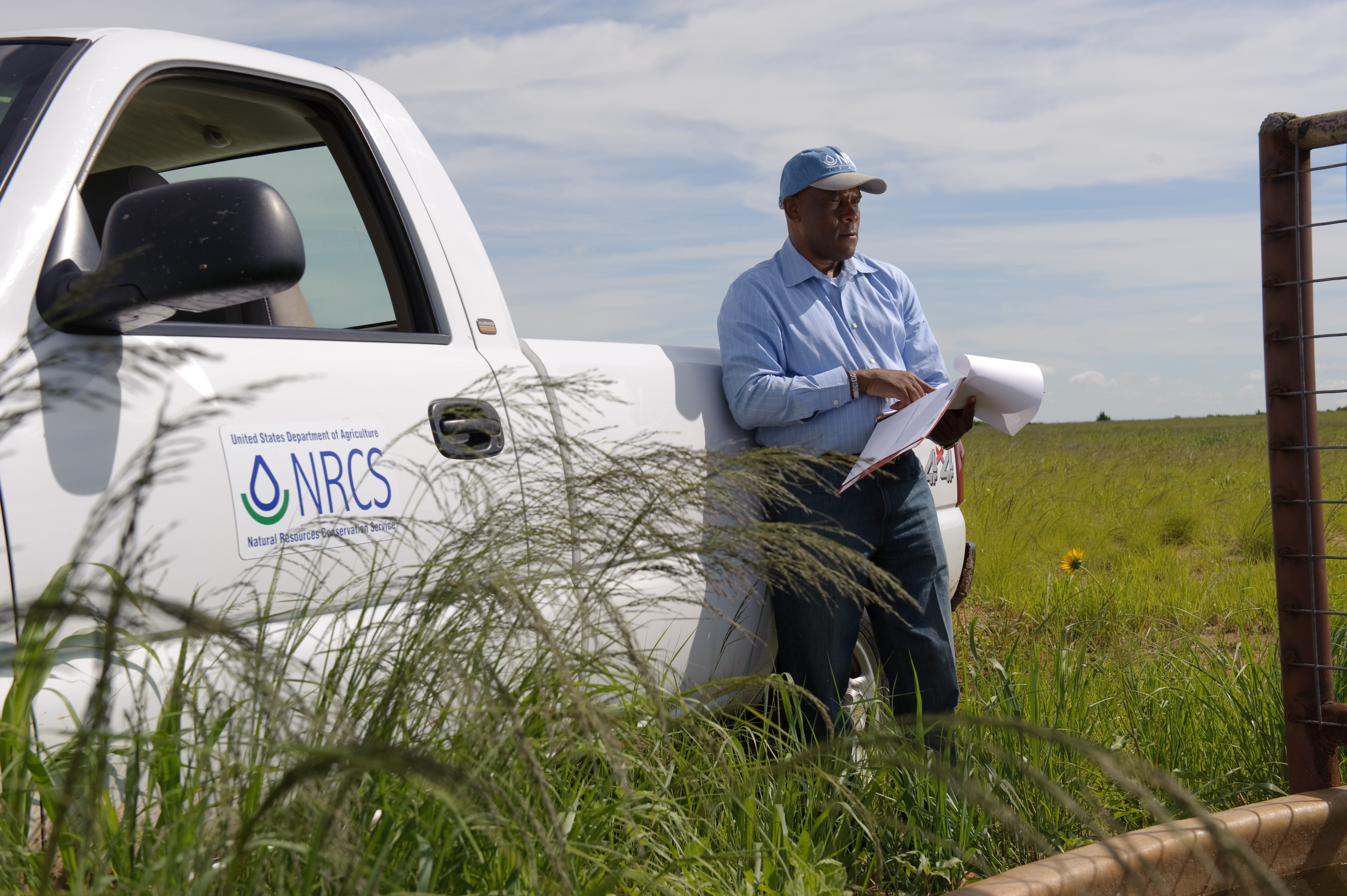 This image or file is a work of a United States Department of Agriculture employee, taken or made as part of that person's official duties. As a work of the U.S. federal government, the image is in the public domain.